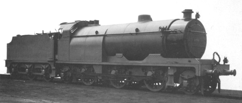 Only picture available from the Paget locomotive of the Midland Railway, which had the number 2299. It is an official photograph produced by the Midland Railway that was published about 1925, when the locomotive was already scrapped.